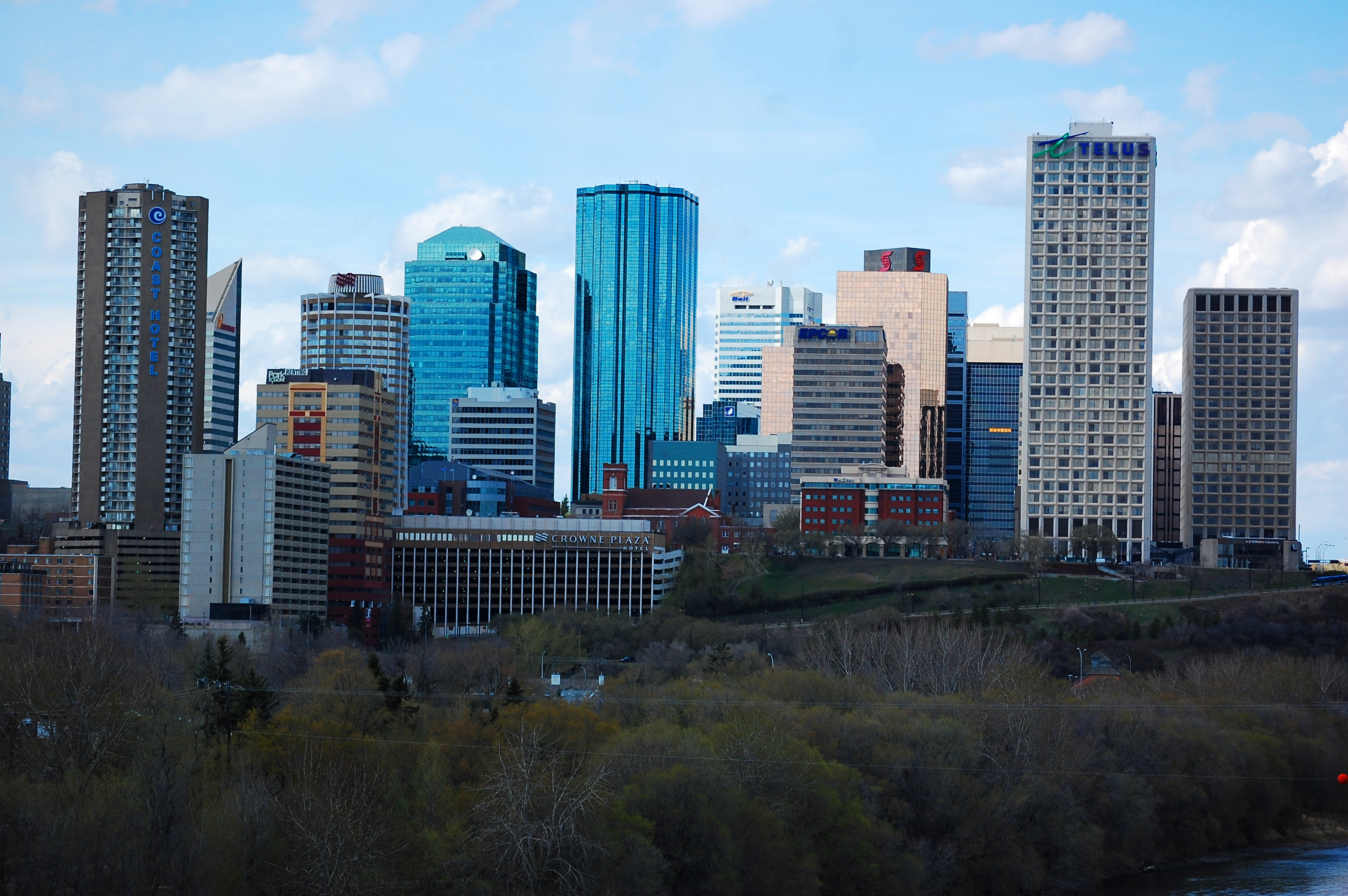 Shot of downtown Edmonton towers from south bank of river.